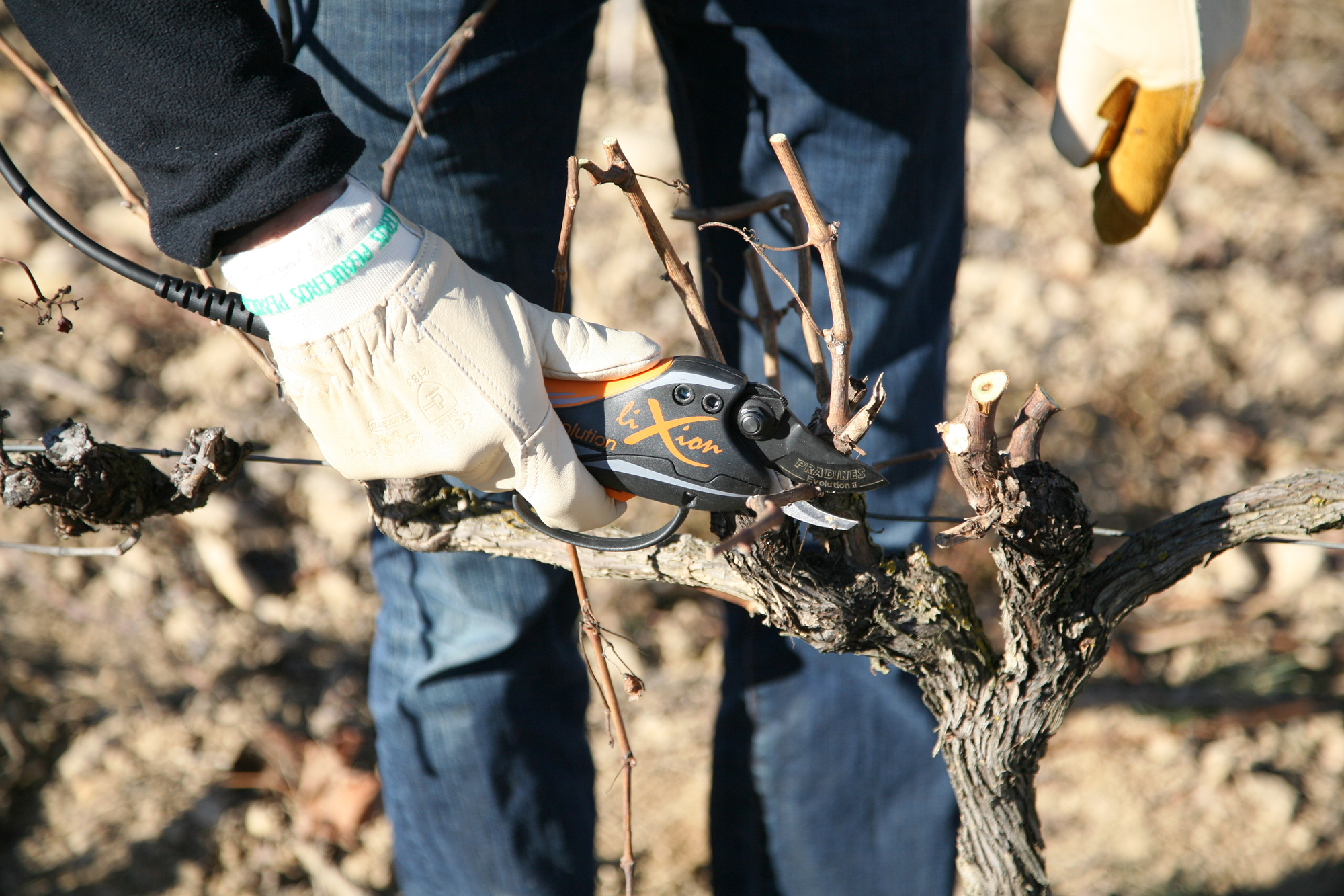 Pellenc pruning secateur (Lixion Evolution).